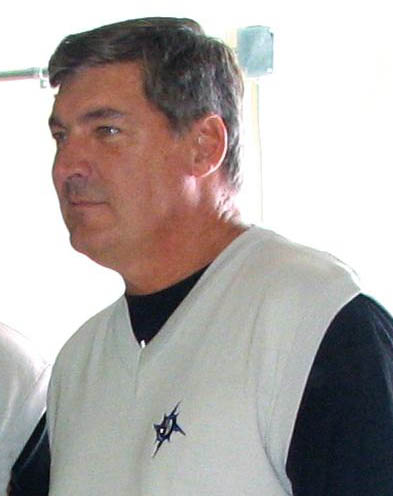 Former Detroit Pistons player Bill Laimbeer.